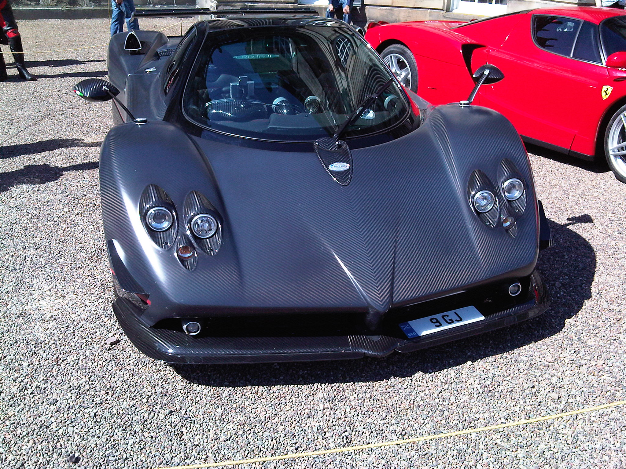 Pagani Zonda GJ